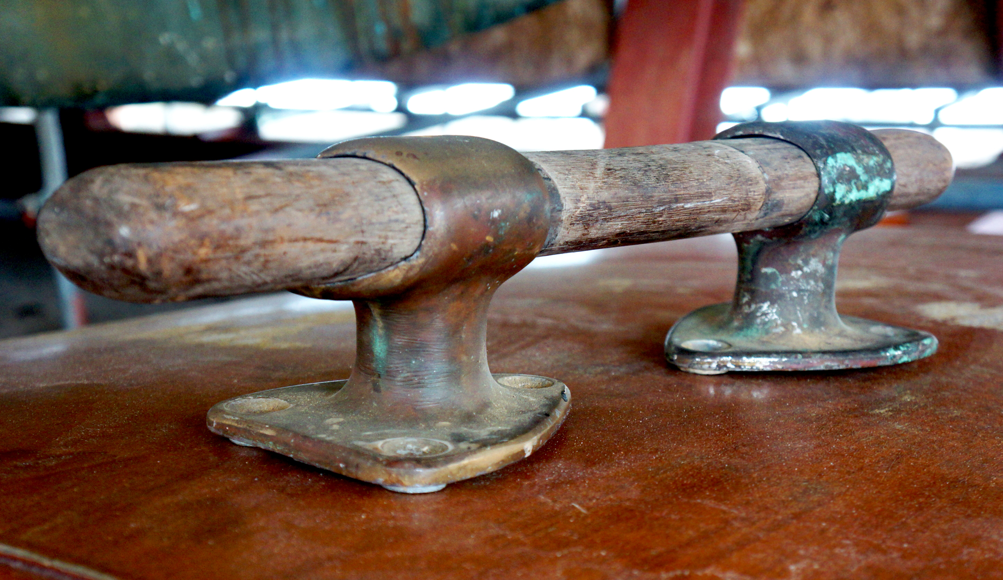 An original cleat from King George V's Yacht Britannia will continue to be a part of the Britannia Legacy on board the replica. - K1 Britannia.